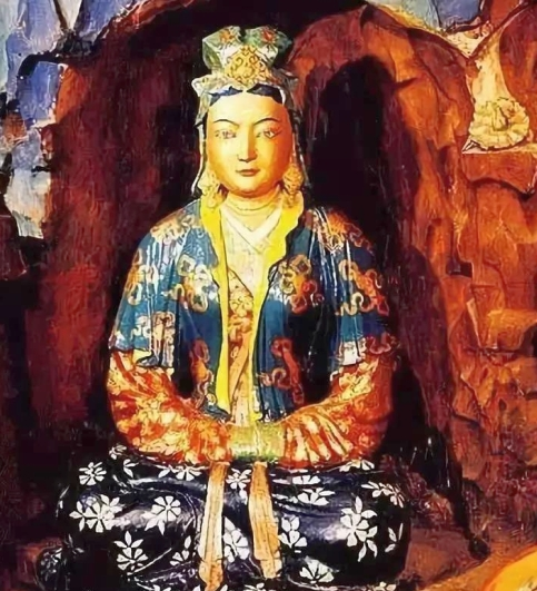 Princess Wencheng